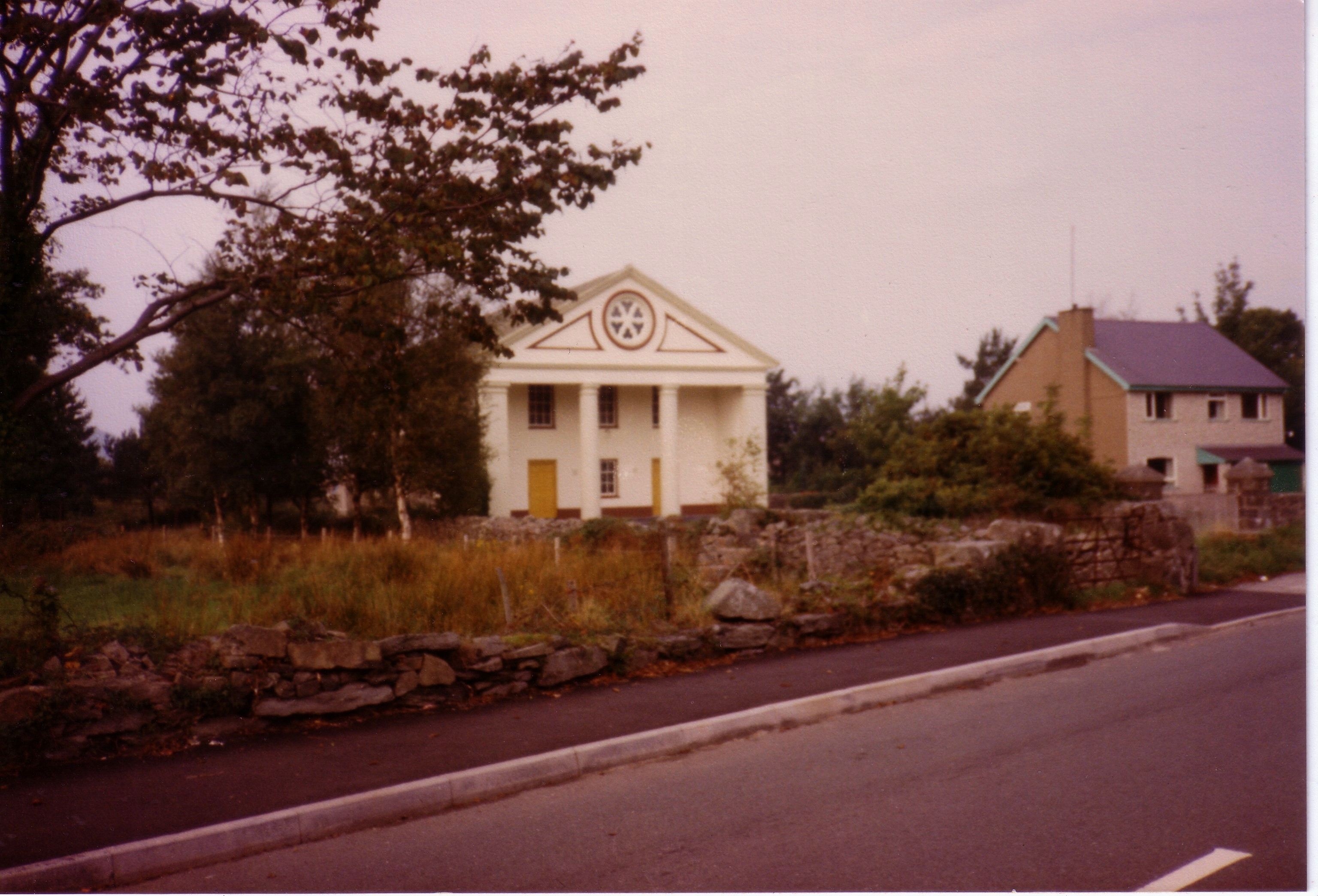 Capel Peniel set back from road